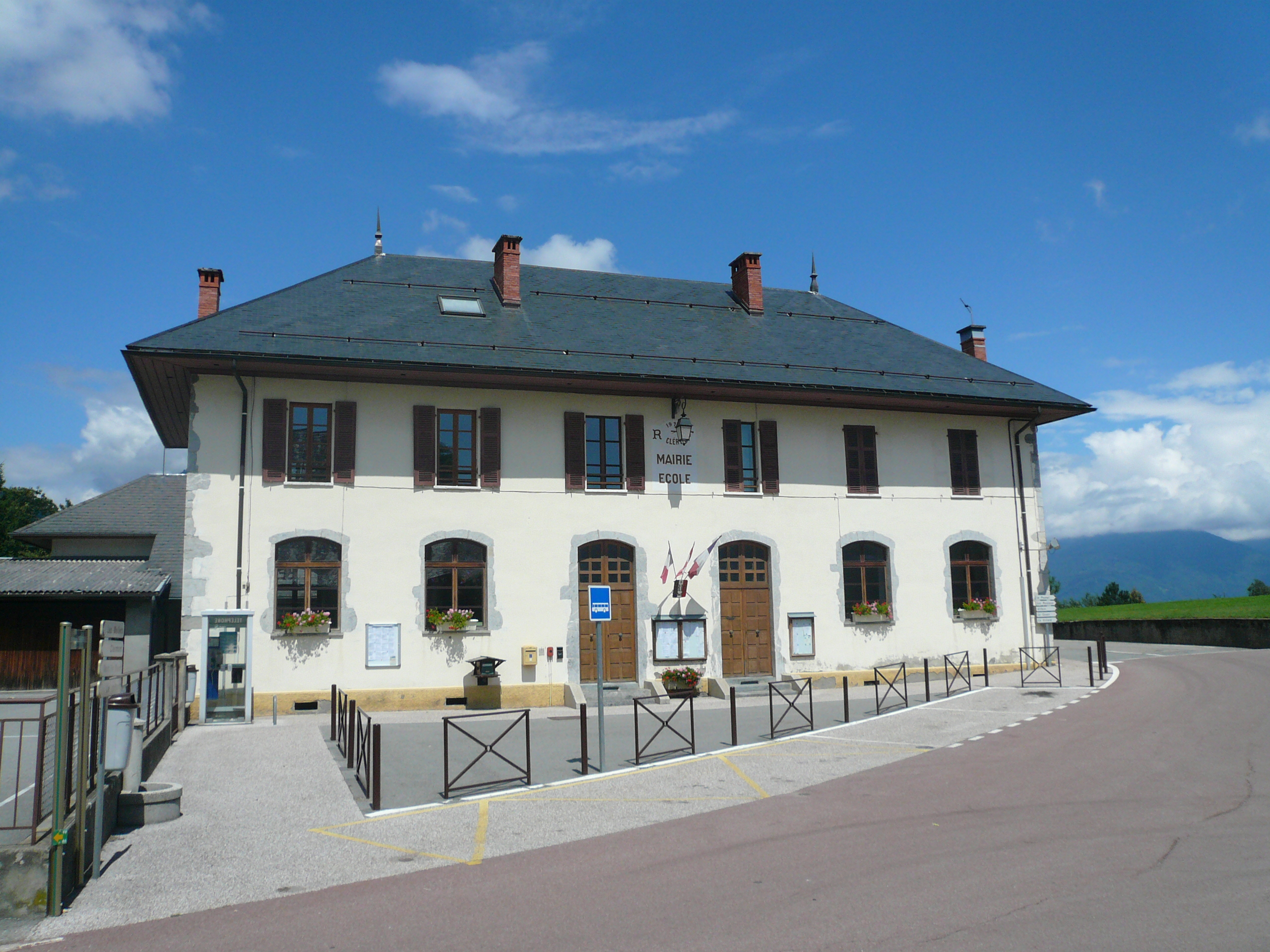 City hall of Cléry, Savoy, Rhône-Alpes, France